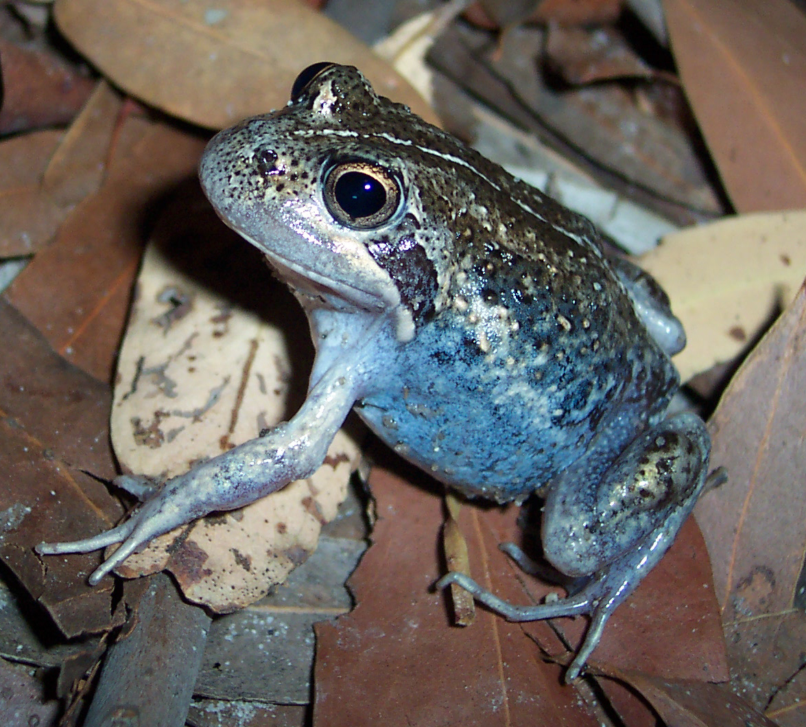 A Southern Banjo Frog, (Limnodynastes dumerilii insularis), from Jervis Bay, showing distinct blue on flank.